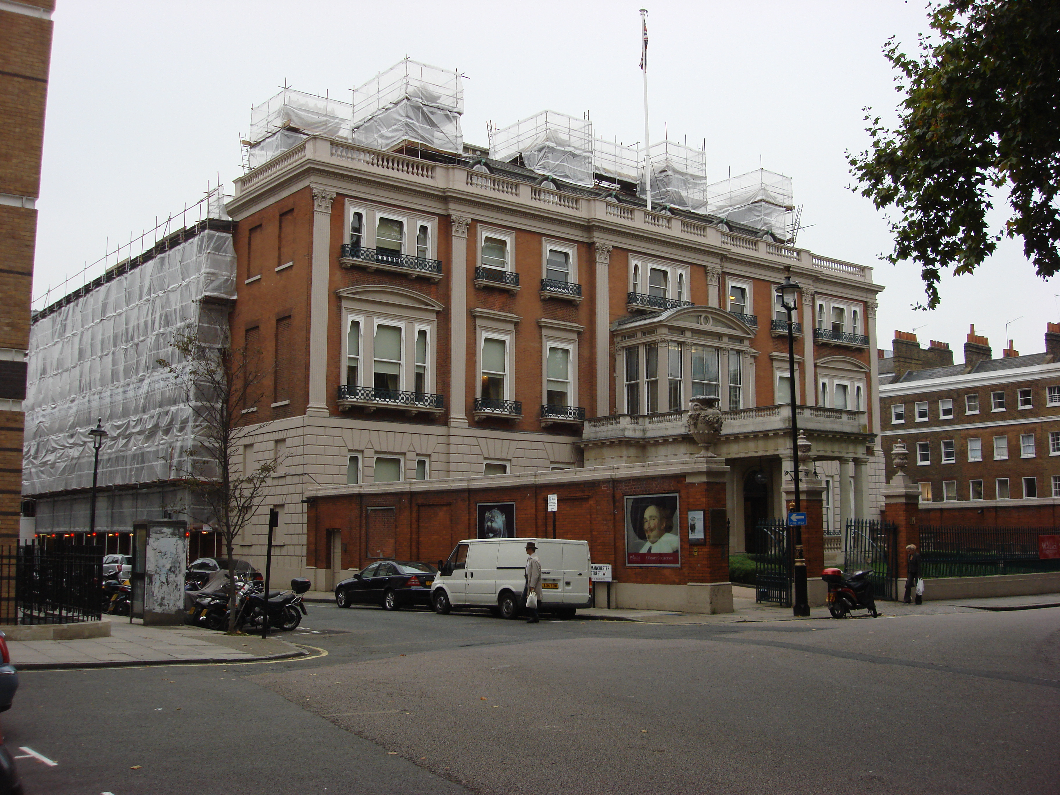 Hertford House home of the Wallace Collection